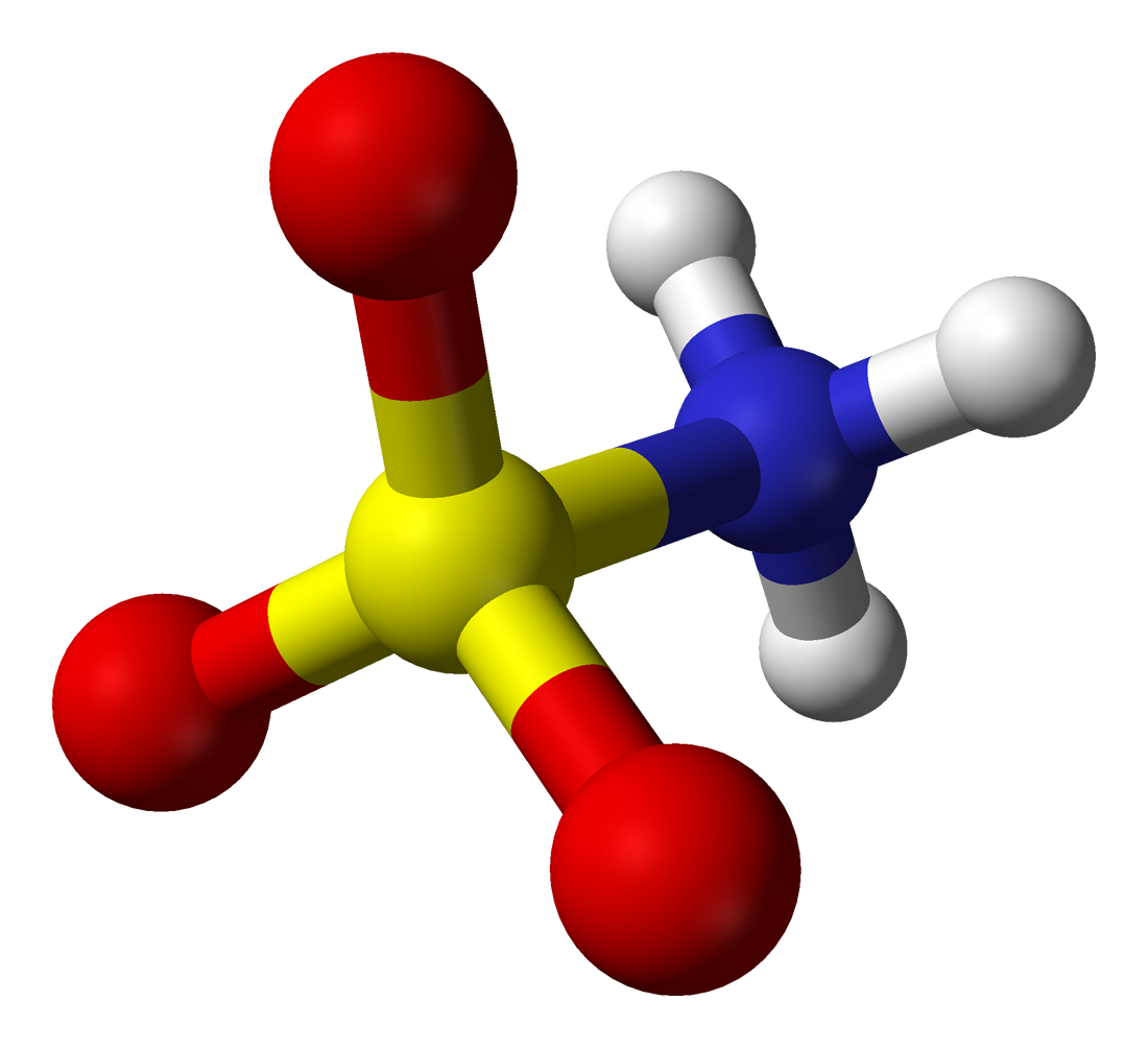 Ball-and-stick model of the sulfamic acid zwitterion, H3NSO3, as found in the crystalline phase. X-ray crystallographic from R. L. Sass (April 1960). "A neutron diffraction study on the crystal structure of sulfamic acid". Acta Cryst. 13 (4): 320-324.